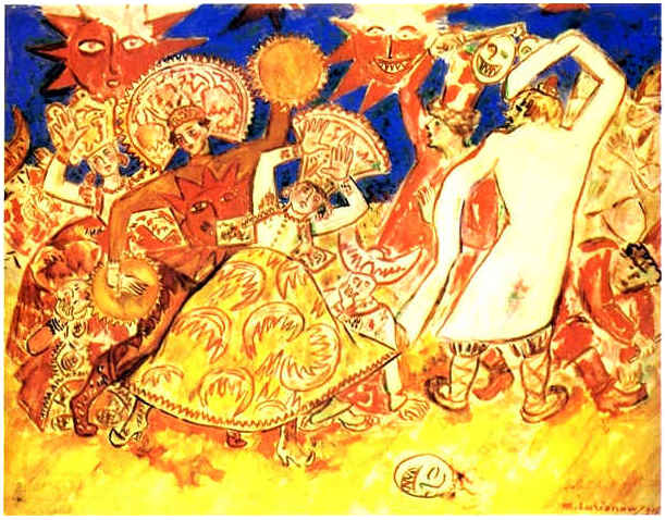 A Group of Dancers and a Mask on the Floor. 1915. Design for ballet "Midnight Sun". Music from opera "Snow-Girl" by N.Rimsky-Korsakov. Producer L.Miasin, S.Diagilev's enterprise (Grand Theatre, Geneva, 1915). Watercolor, pencil on paper, 63.3x78.6 cm. Collection of N.&N.Lobanov-Rostovsky's, London.